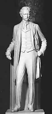 Uriah Milton Rose. Marble by Frederic W. Ruckstull Copyright: Public domain US Government work. Frederick Ruckstull (1853–1942) Alternative namesFrederick Wellington Ruckstull; Friedrich RuckstuhlDescriptionFrench-American sculptorDate of birth/death22 May 185326 May 1942Location of birth/deathBreitenbach (Haut-Rhin)New York CityAuthority control VIAF: 96051528 ULAN: 500055433 LCCN: n88172090 SUDOC: 179940473 WorldCat